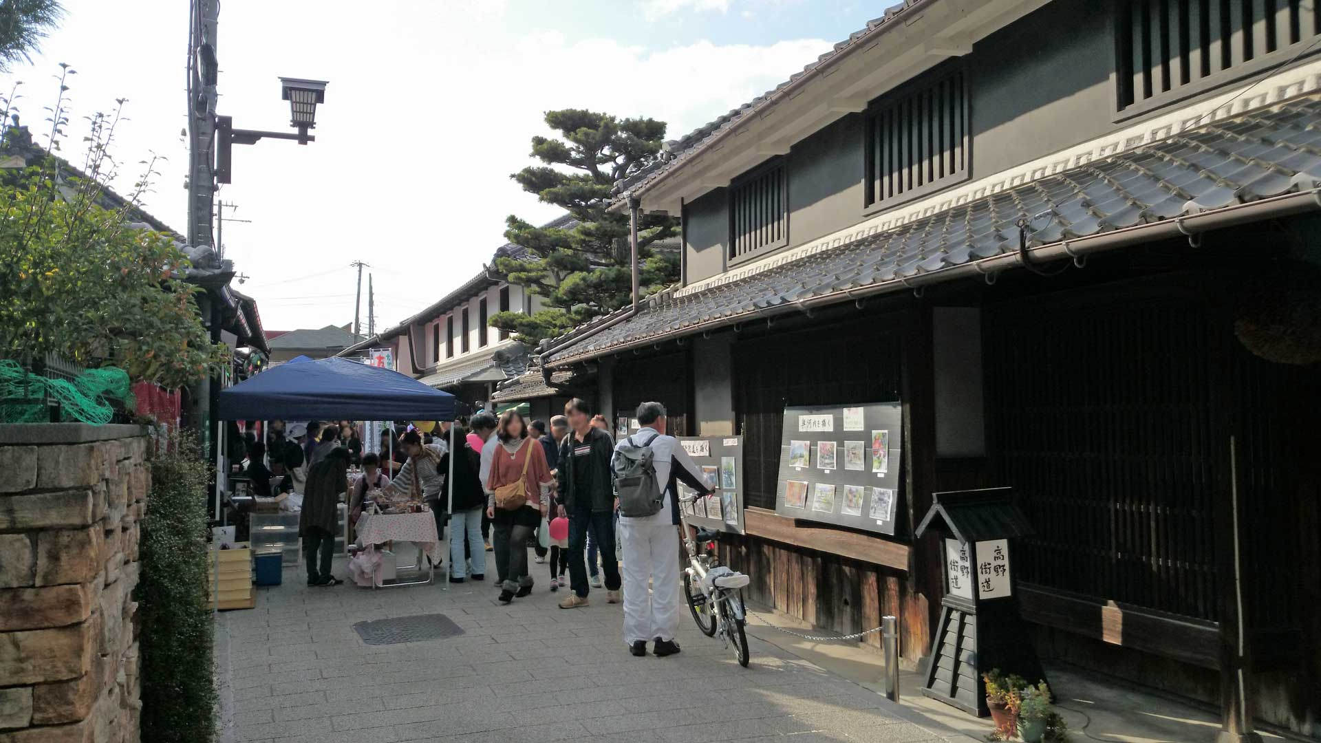 Kōya Kaidō Okukawachi (Kawachinagano-Mikkaichi)